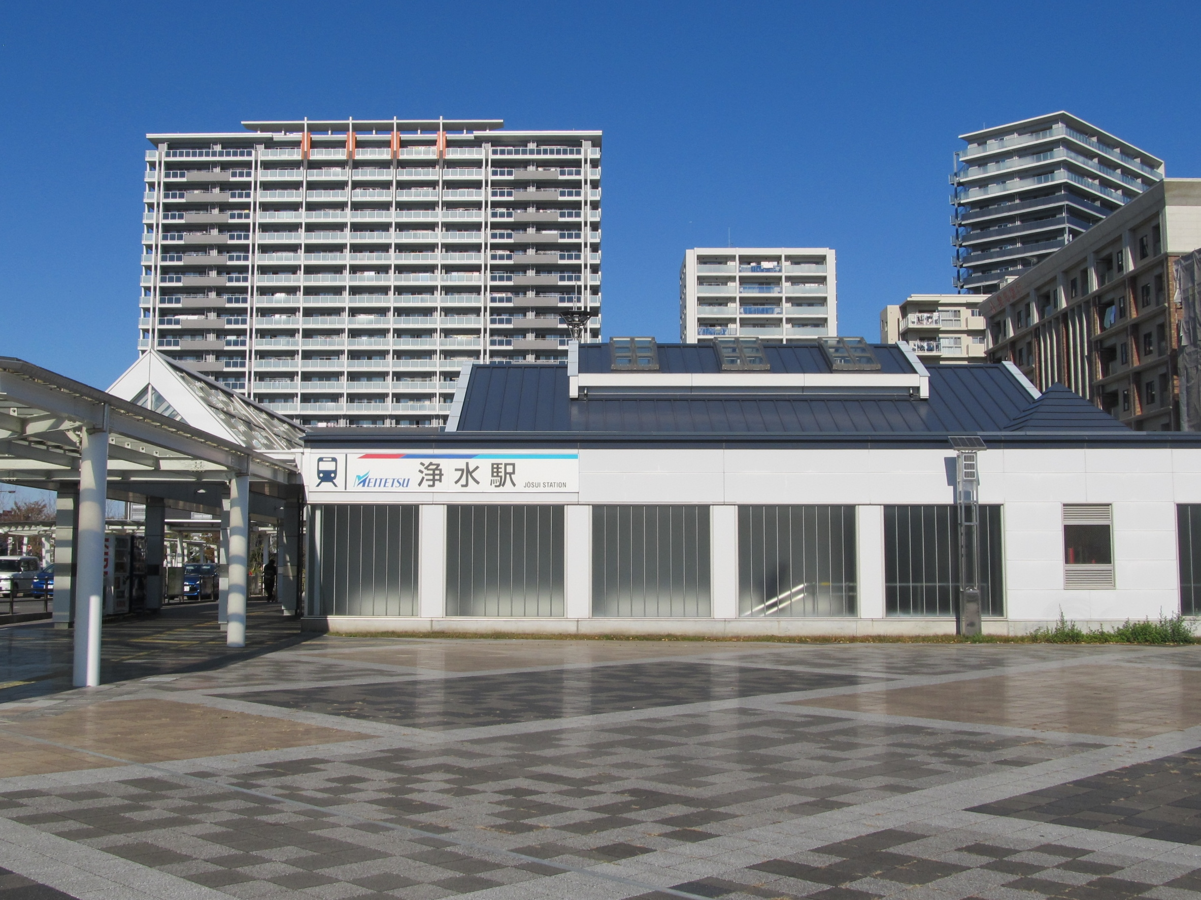 Nagoya Railroad Toyota Line Jōsui Station Building